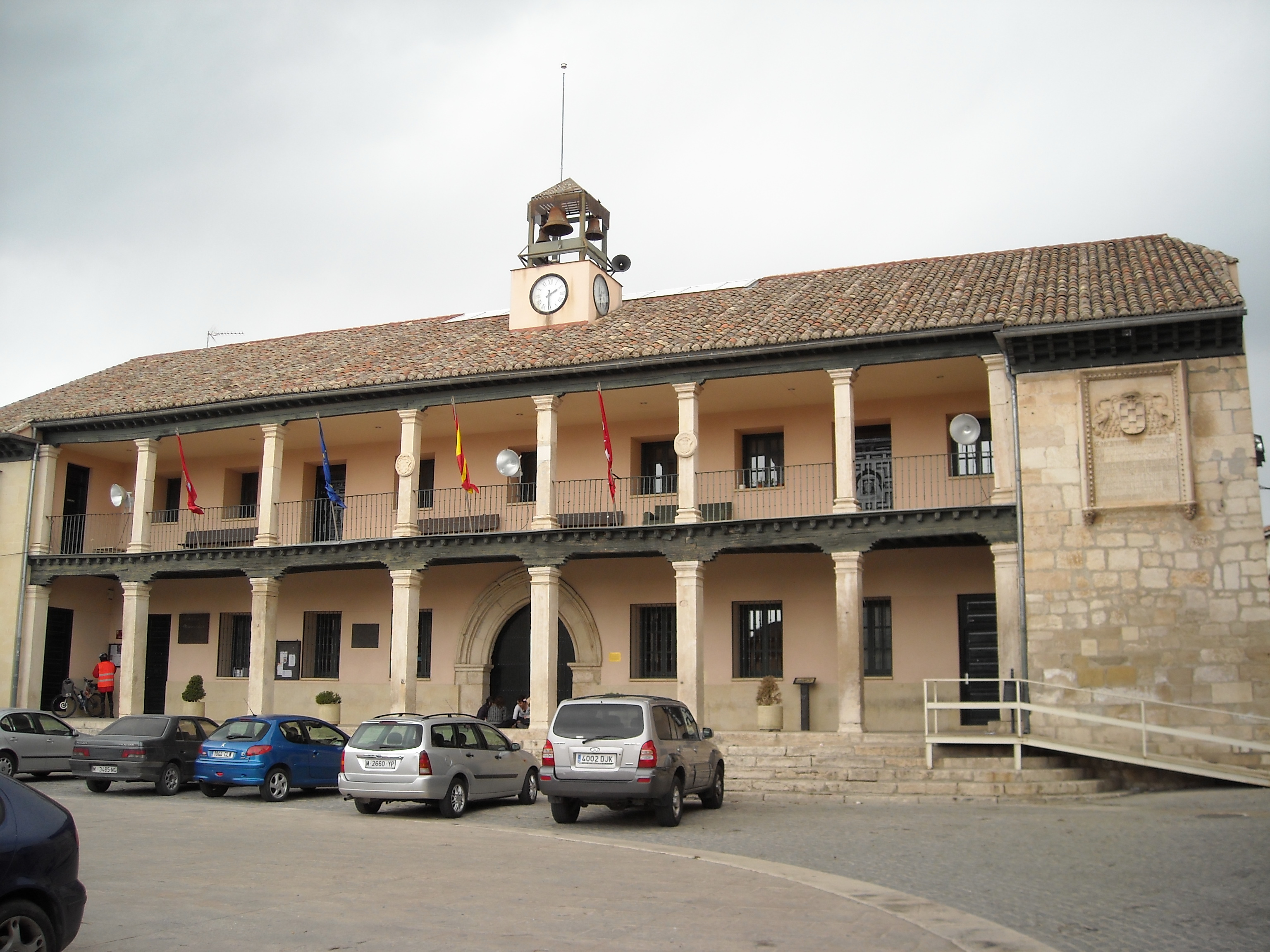 Town hall, Torrelaguna, Madrid, Spain